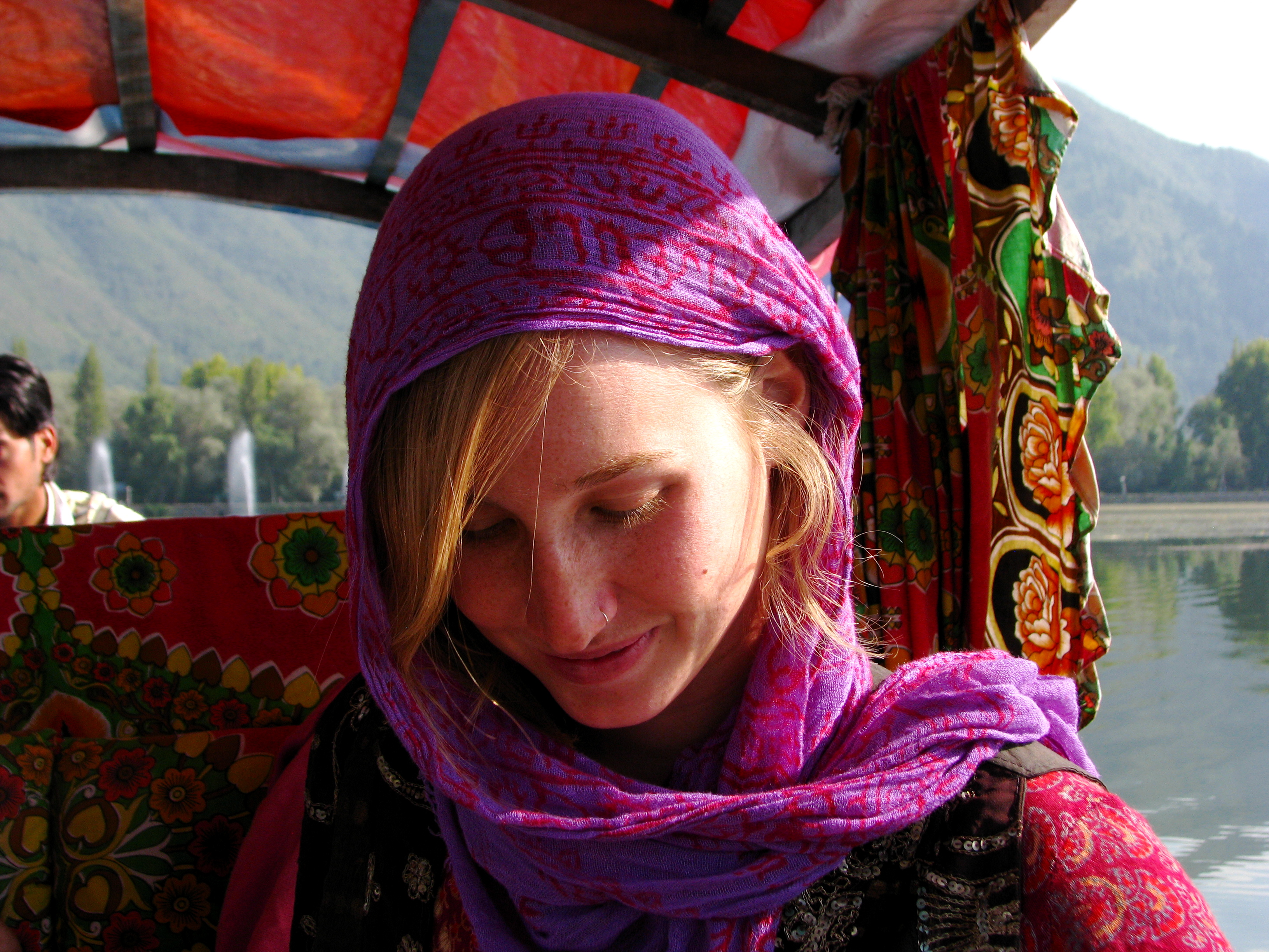 Matching exuberant colours, Shiri and our shikara.